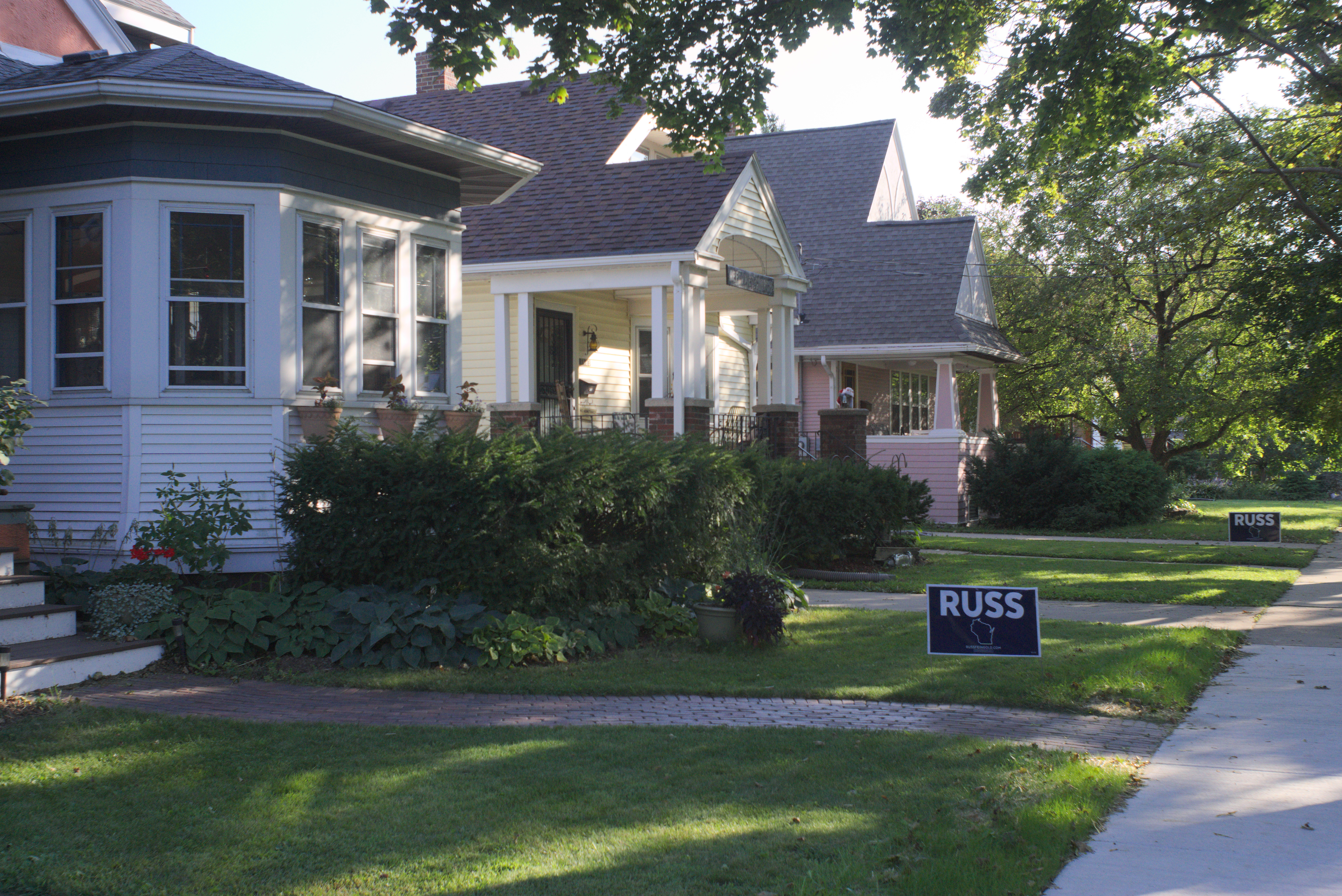 Homes in the 1400 block of Spaight St, Marquette Bungalows Historic District, in Madison, Wisconsin. The two blocks of Spaight St. and Rutledge St. from Thornton St. to Dickinson St. holds Madison's largest concentration of Craftsman style bungalows.